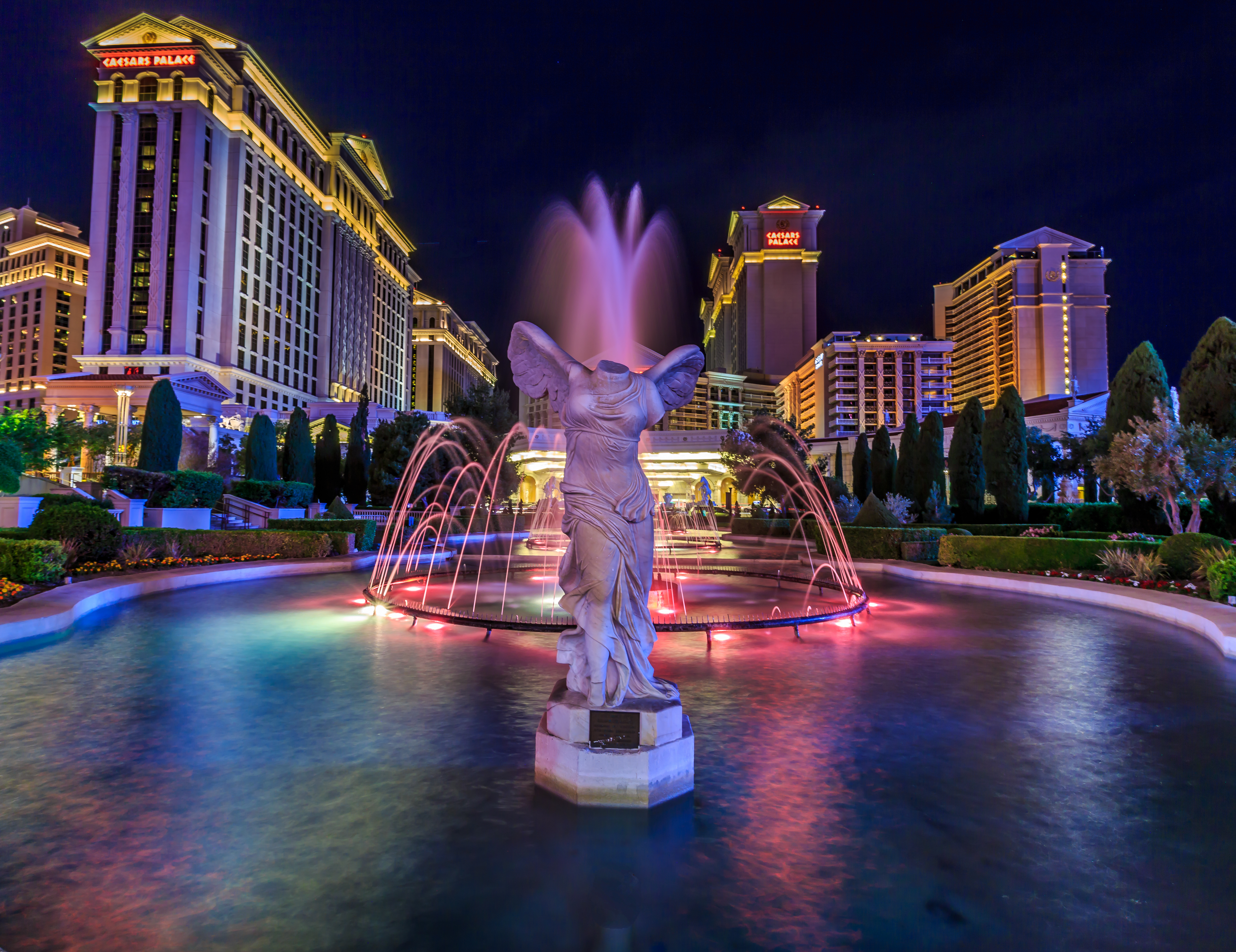 Photography by